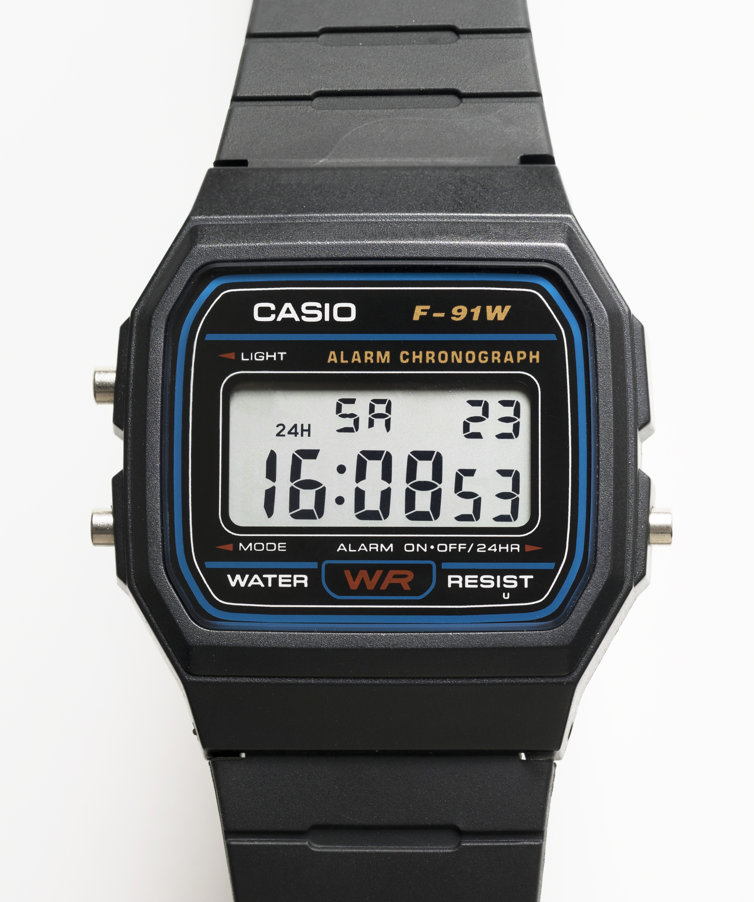 CASIO F-91W digital watch.